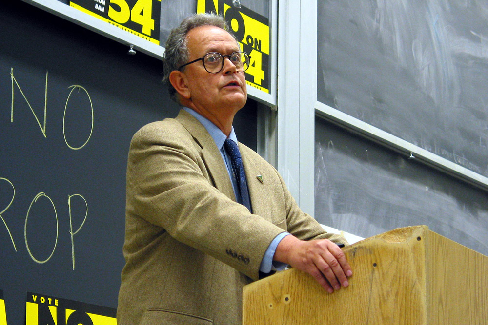 Photo by Tim Bergeron